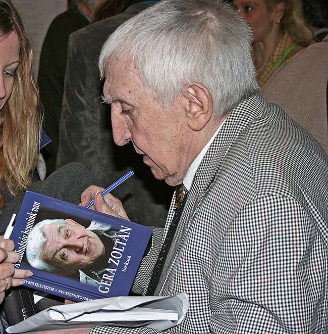 Zoltán Gera signing his book – 2 February 2014